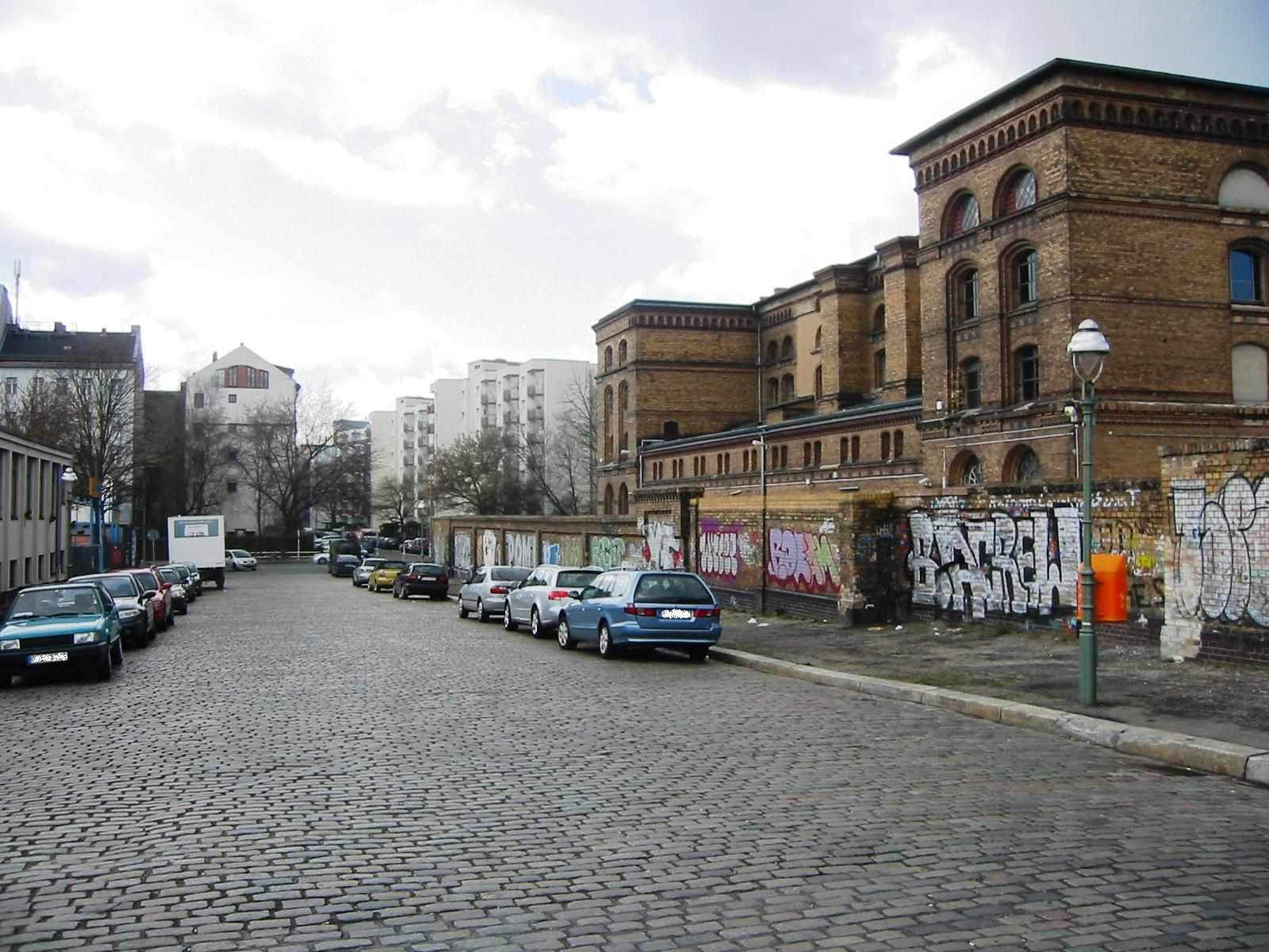 Brommystraße in Berlin-Kreuzberg (Germany) View →SW from river Spree towards Köpenicker Straße along Brommystraße Building of yellow bricks at right hand is former Heeresbäckerei (Army bakery)